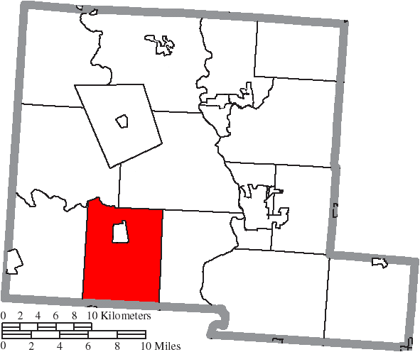 Map of the municipal and township boundaries of Pickaway County, Ohio, United States, as of the 2000 census, with the location of Deer Creek Township highlighted. Township borders are shown only in unincorporated areas in order to differentiate incorporated and unincorporated areas more clearly.